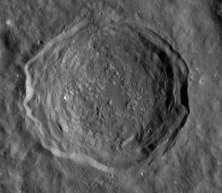 LRO image of Lucretius crater, on the far side of the moon, from the Wide Angle Camera (WAC).